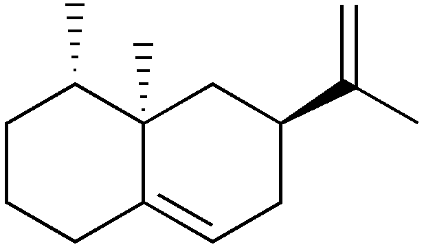 chemical structure of (+)-aristolochene